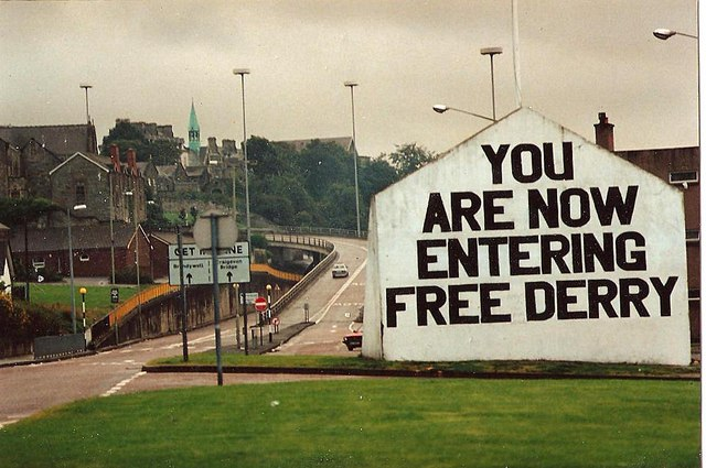 Free Derry Corner. Originally at the corner of Lecky Road and Fahan Street,the slogan being first painted by John Casey in 1969. [1]